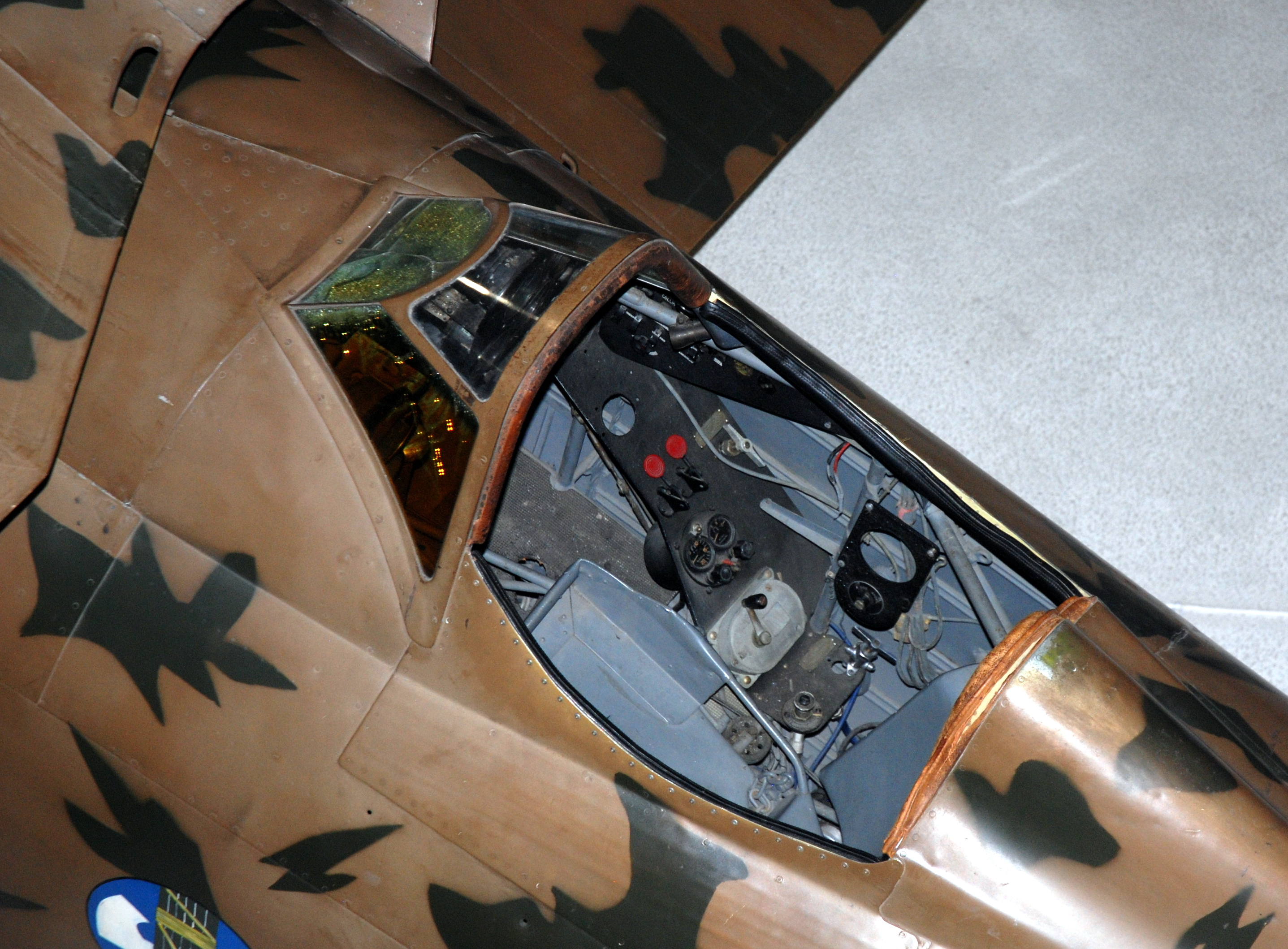 Photo ref; Nikon-D80-2015-DSC_0882 (Edited)